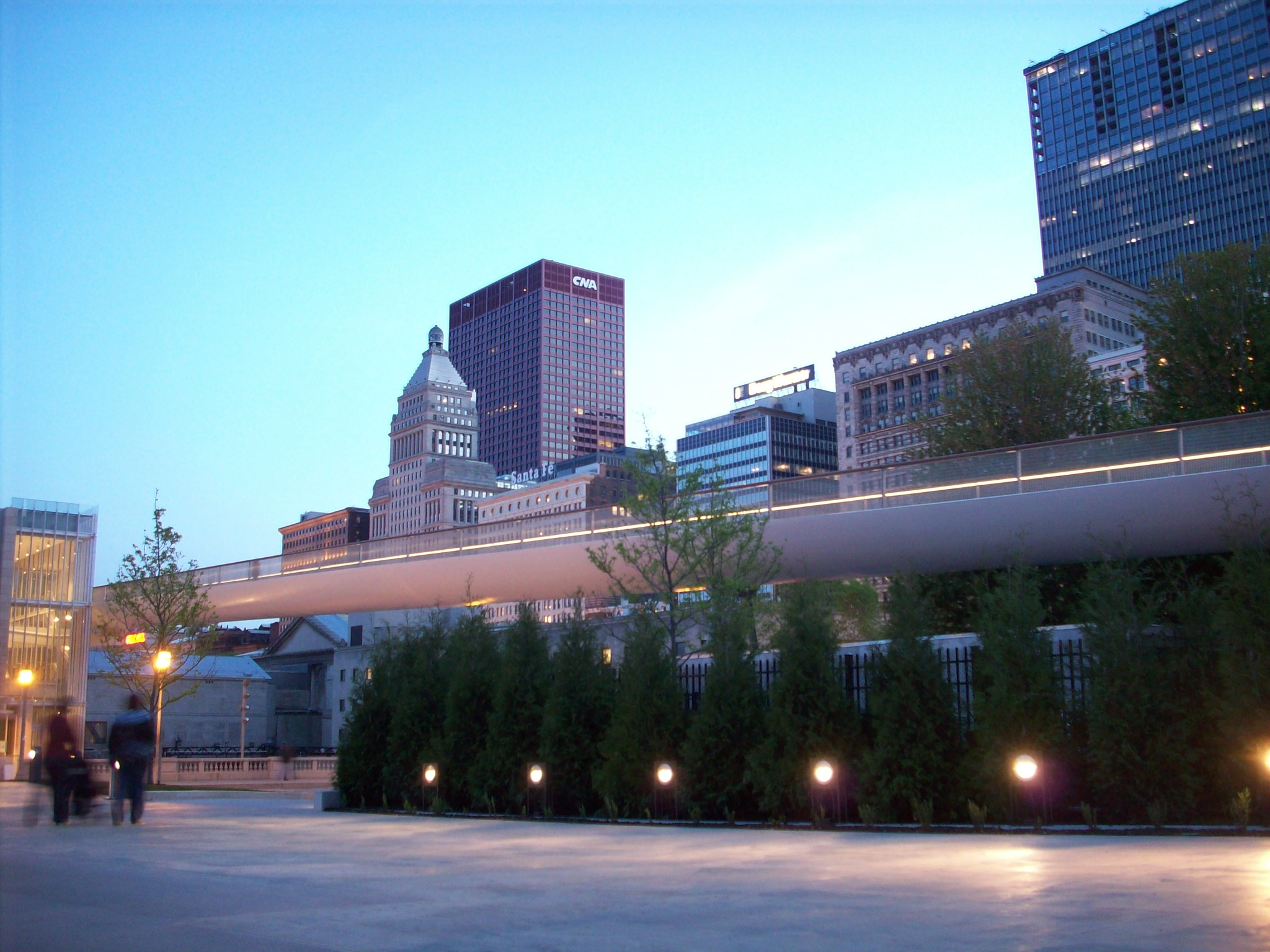 The Nichols Bridgeway from Millennium Park, Chicago, IL.